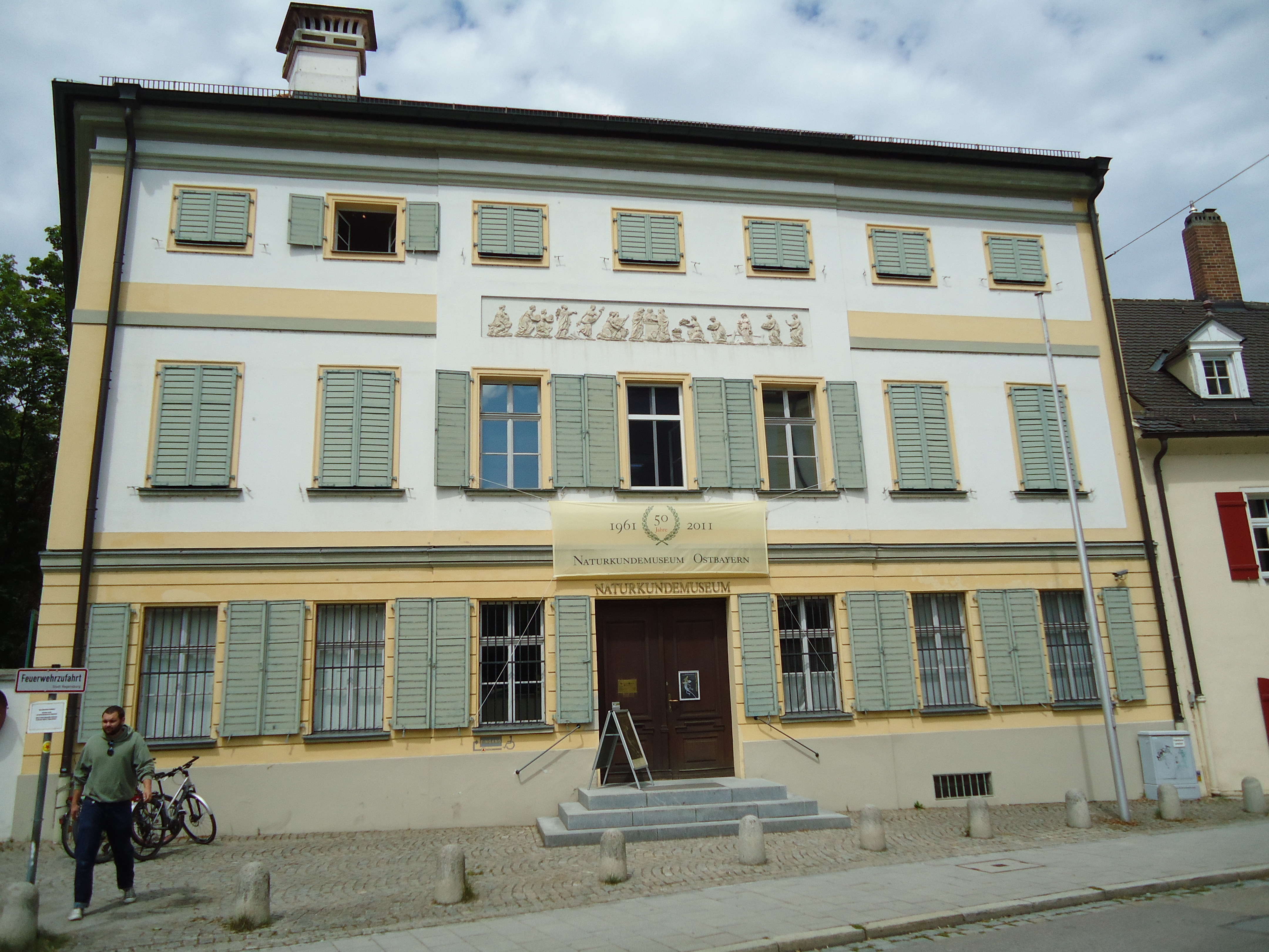 Württembergisches Palais in Regenbsurg